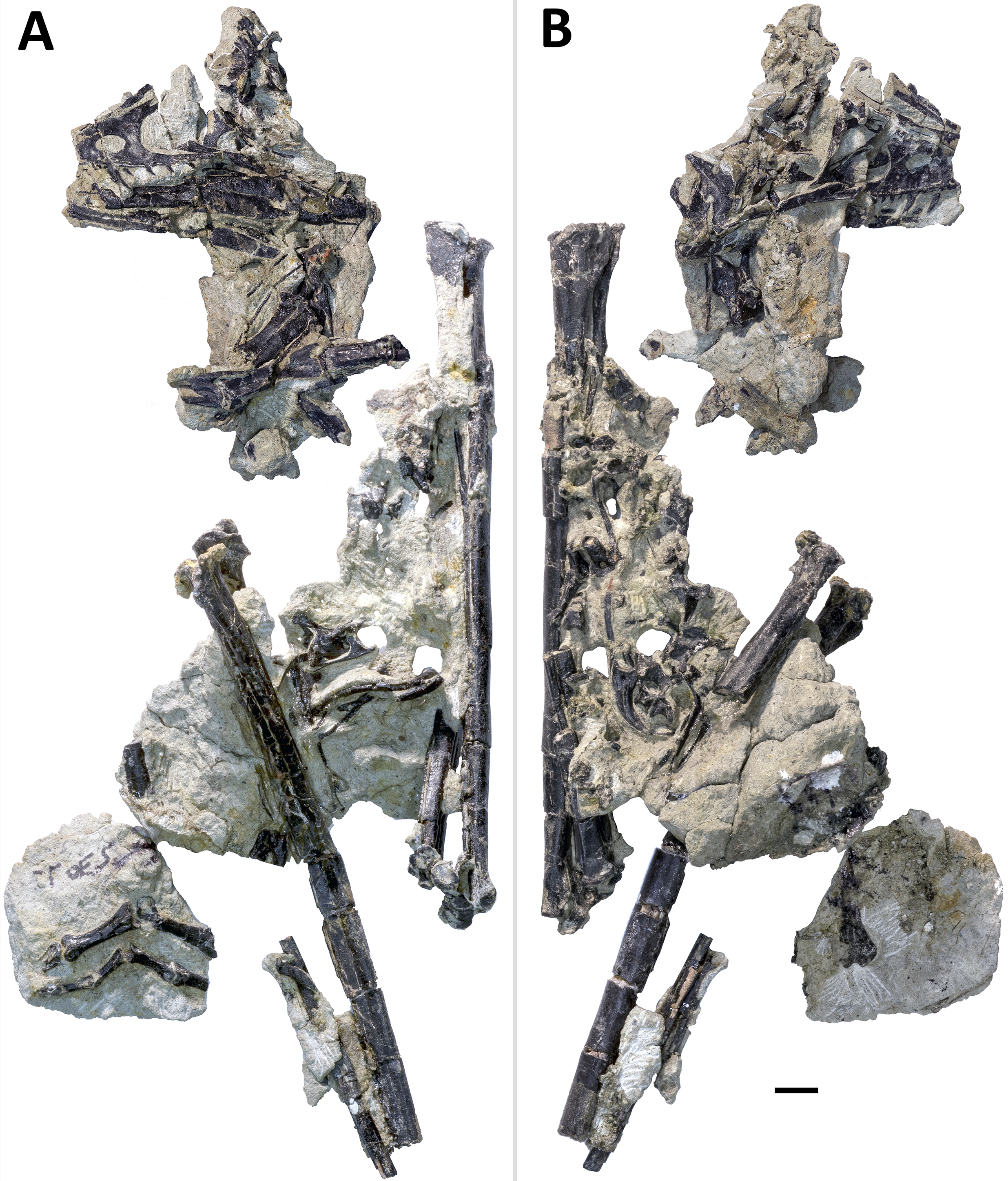 Primary blocks of Hesperornithoides specimen WYDICE-DML-001. “Left” (A) and “right” (B) sides of the blocks after final preparation (B). Scale bar = one cm.